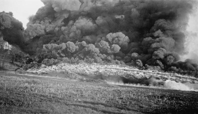 British Flame Projector. First used by British at Battle of the Somme, 1st July 1916. Range 40 to 50 yards. Oil was forced through pipes under pressure, and ignited at a jet.